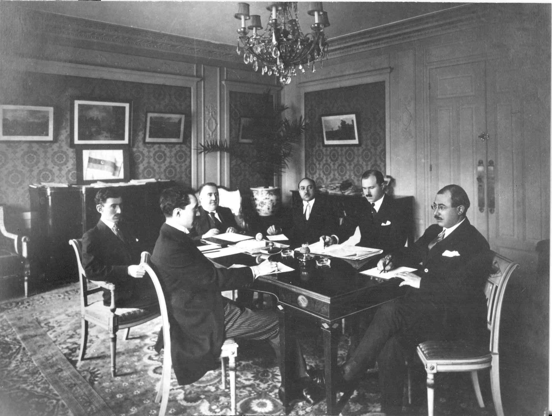 Delegation from Azerbaijan Democtatic Republic in Hôtel Claridge Avenue des Champs-Élysées during Paris Peace Conference